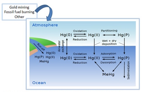 Origins and chemistry of mercury in the ocean